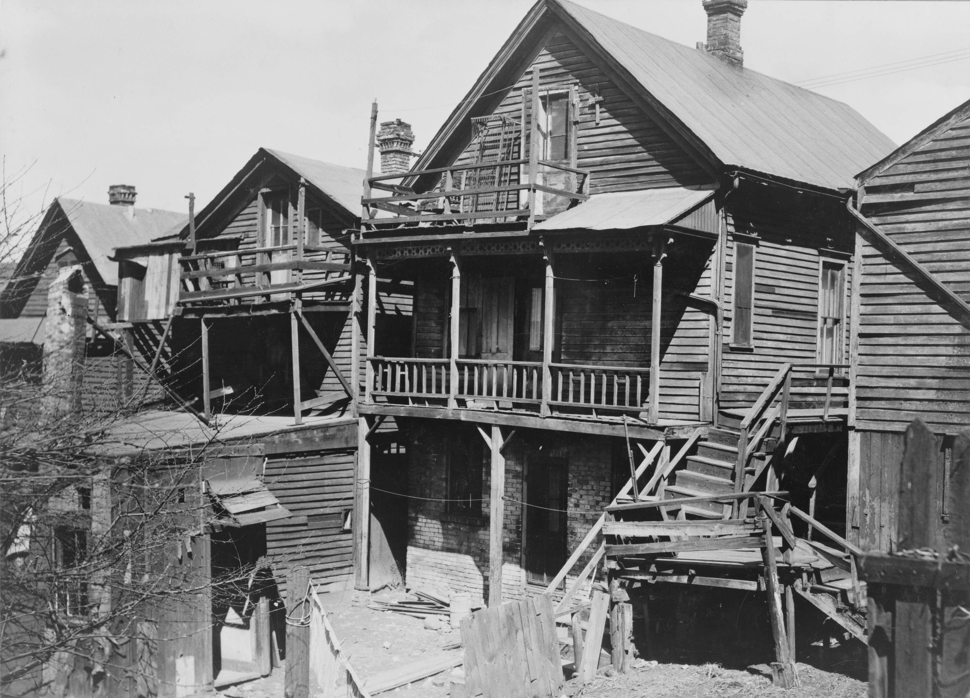 Slums in Milwaukee, 1936. Farm Security Administration - Office of War Information Photograph Collection